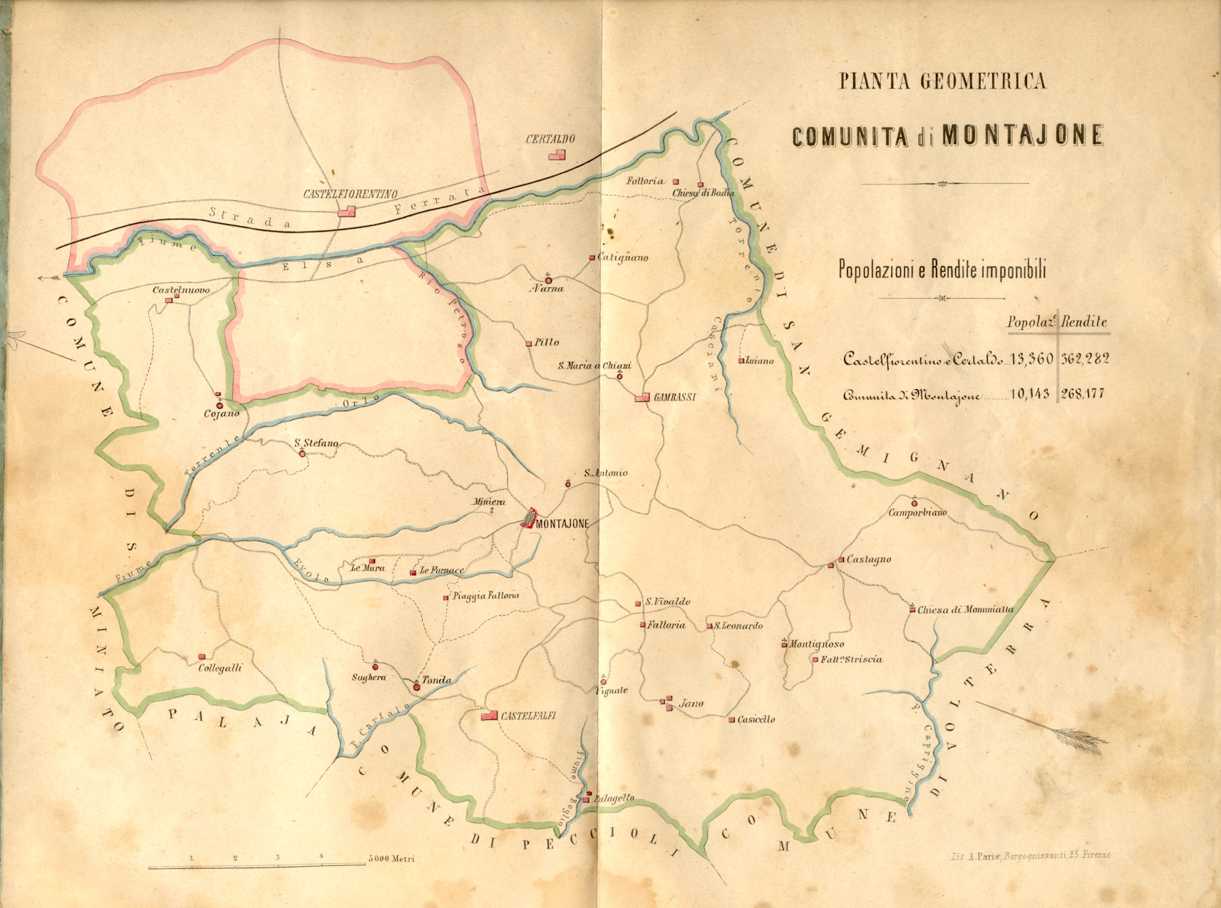 Map of Montaione in 1866